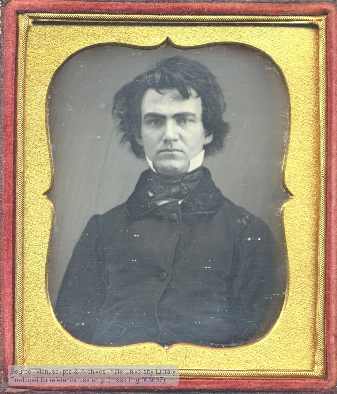 Daguerreotype portrait of William Austin Dickinson, attorney and older brother of the poet Emily Dickinson. Image courtesy of the Todd-Bingham Picture Collection and Papers, Yale University Manuscripts & Archives Digital Images Database, Yale University, New Haven, Connecticut.